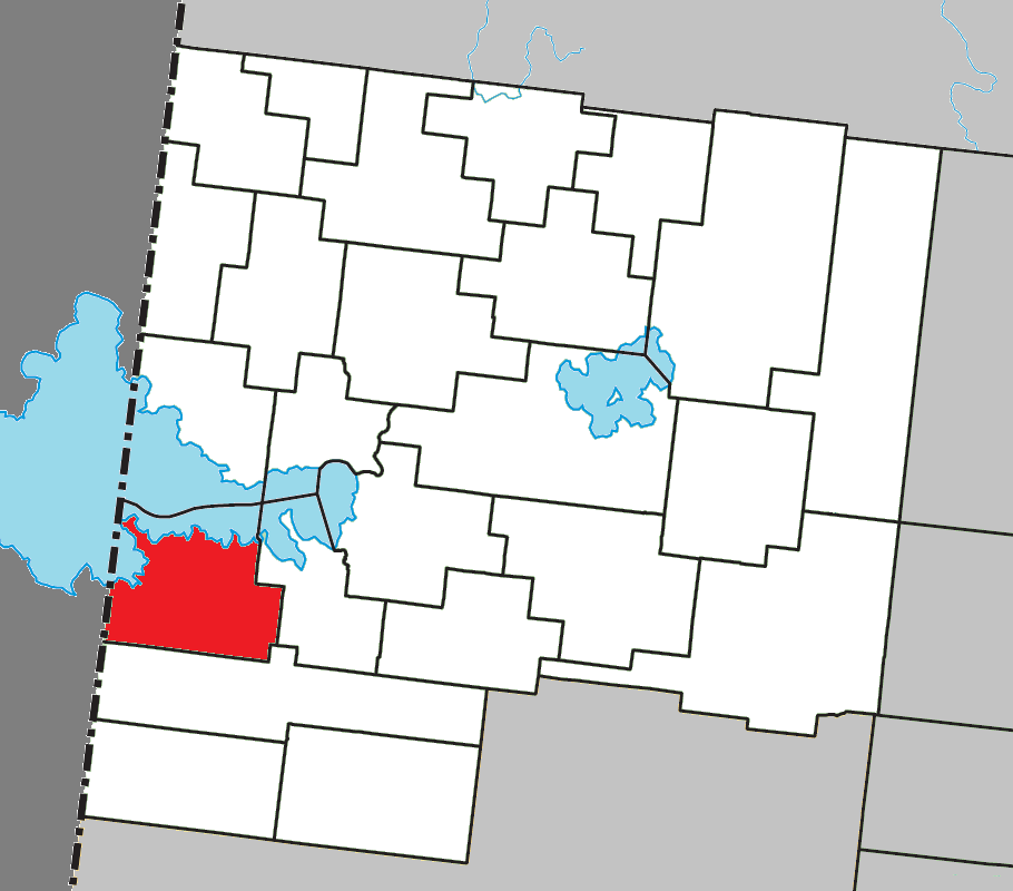 Location of Roquemaure, Quebec within Abitibi-Ouest Regional County Municipality.